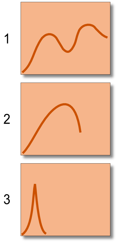 Product lifecycle (3 charts) #2 (Style, Fashion, Fad)